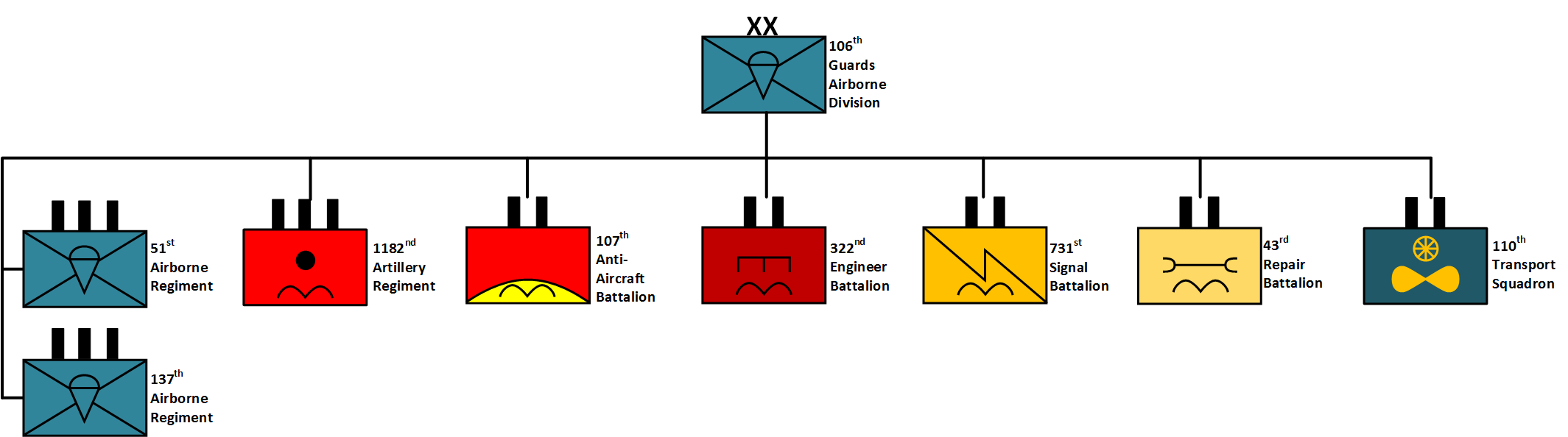 Order of battle graphic showing the organization of the Russian 106th Guards Airborne Divsion